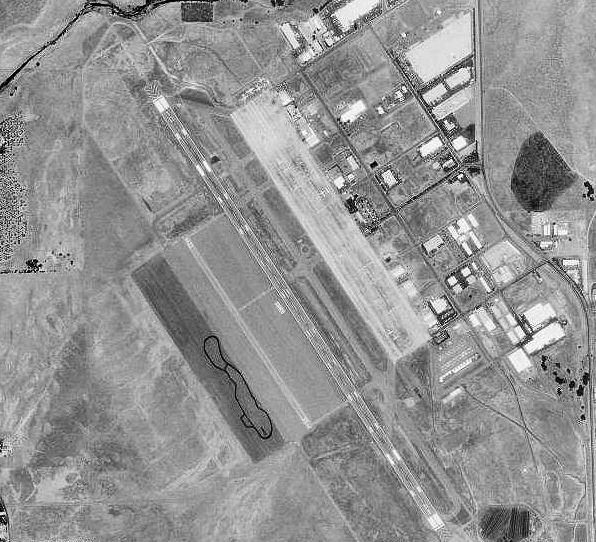 USGS digital orthophoto of Chico Municipal Airport in Chico, California, United States